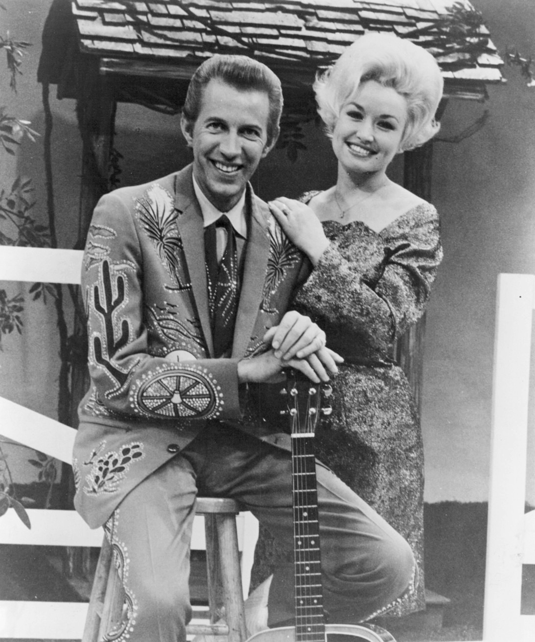 Photo of Porter Wagoner and Dolly Parton. There are no copyright marks on the item, which can be seen at the link.